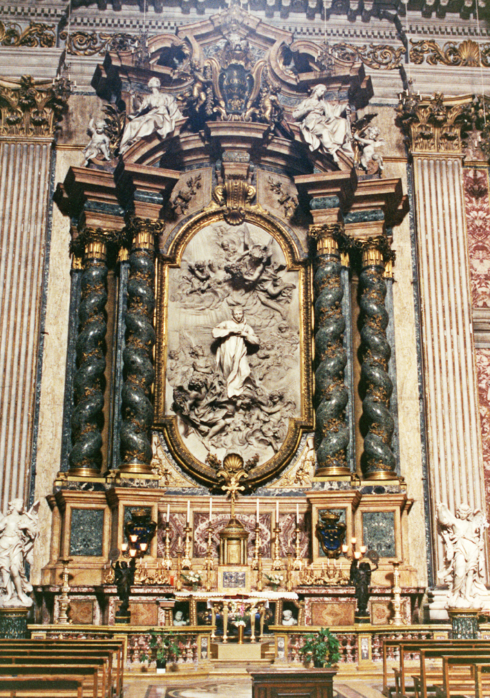 Altar of San Luigi Gonzaga, Sant'Ignazio, Rome. Sculptor: Pierre Le Gros the Younger, c. 1697-1699